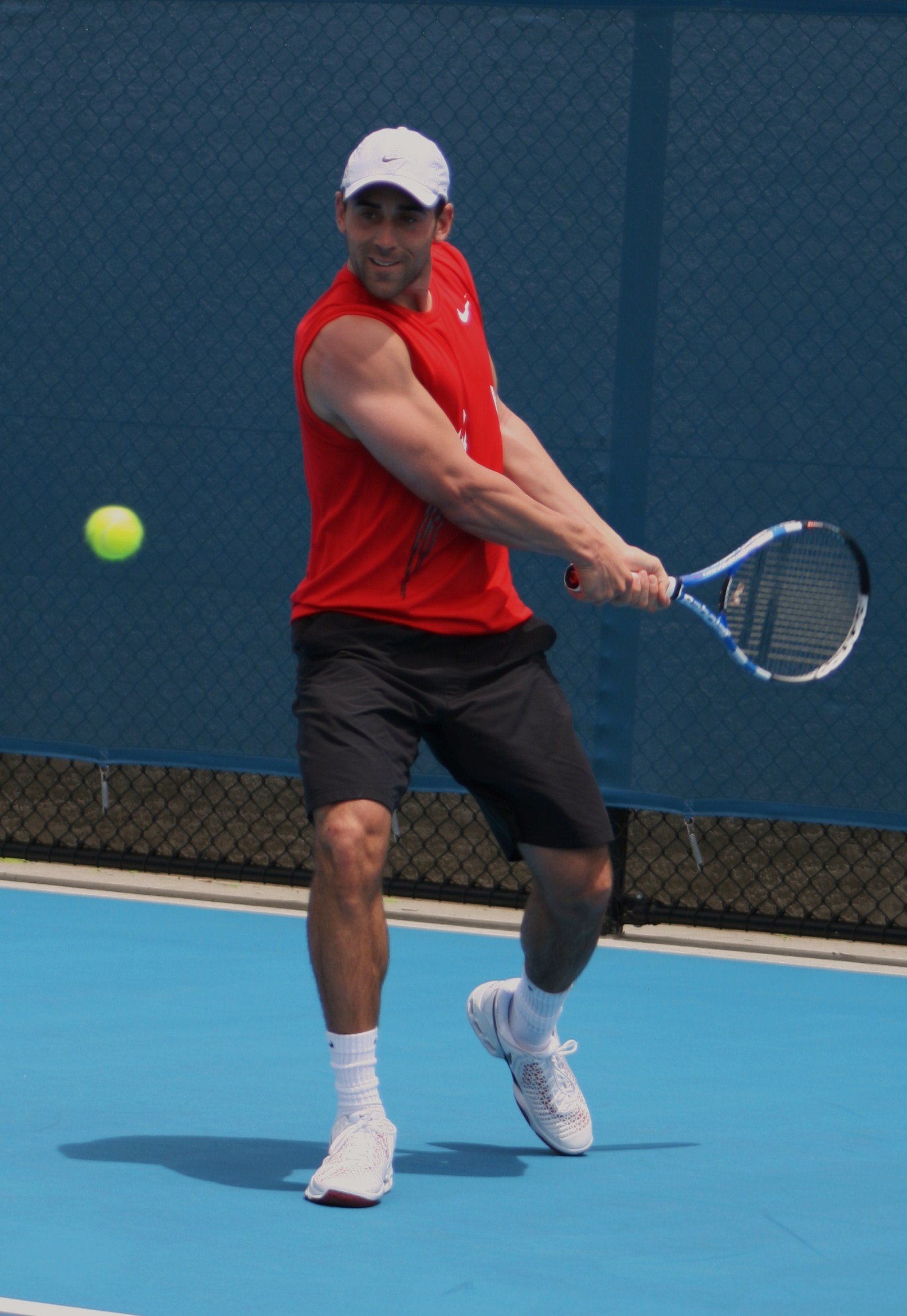 Bobby Reynolds at the 2009 Brisbane International